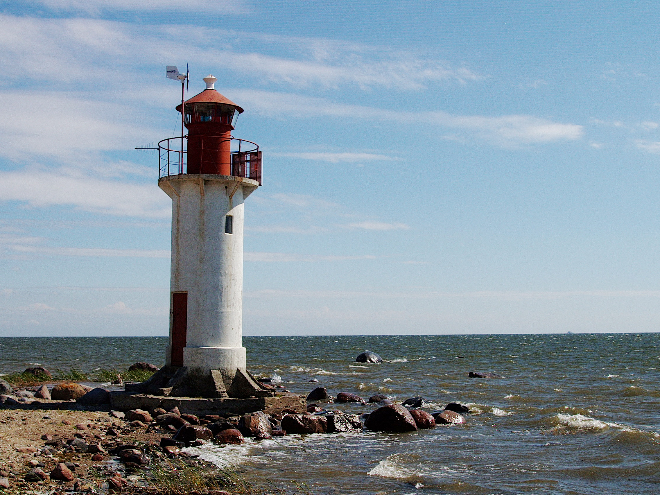 Small lighthouse of Manilaiu (tulepaak is a type of lighthouse that is visable under 10 nautical miles)